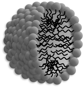 A micelle is composed of molecules with a polar head group and non-polar tails.